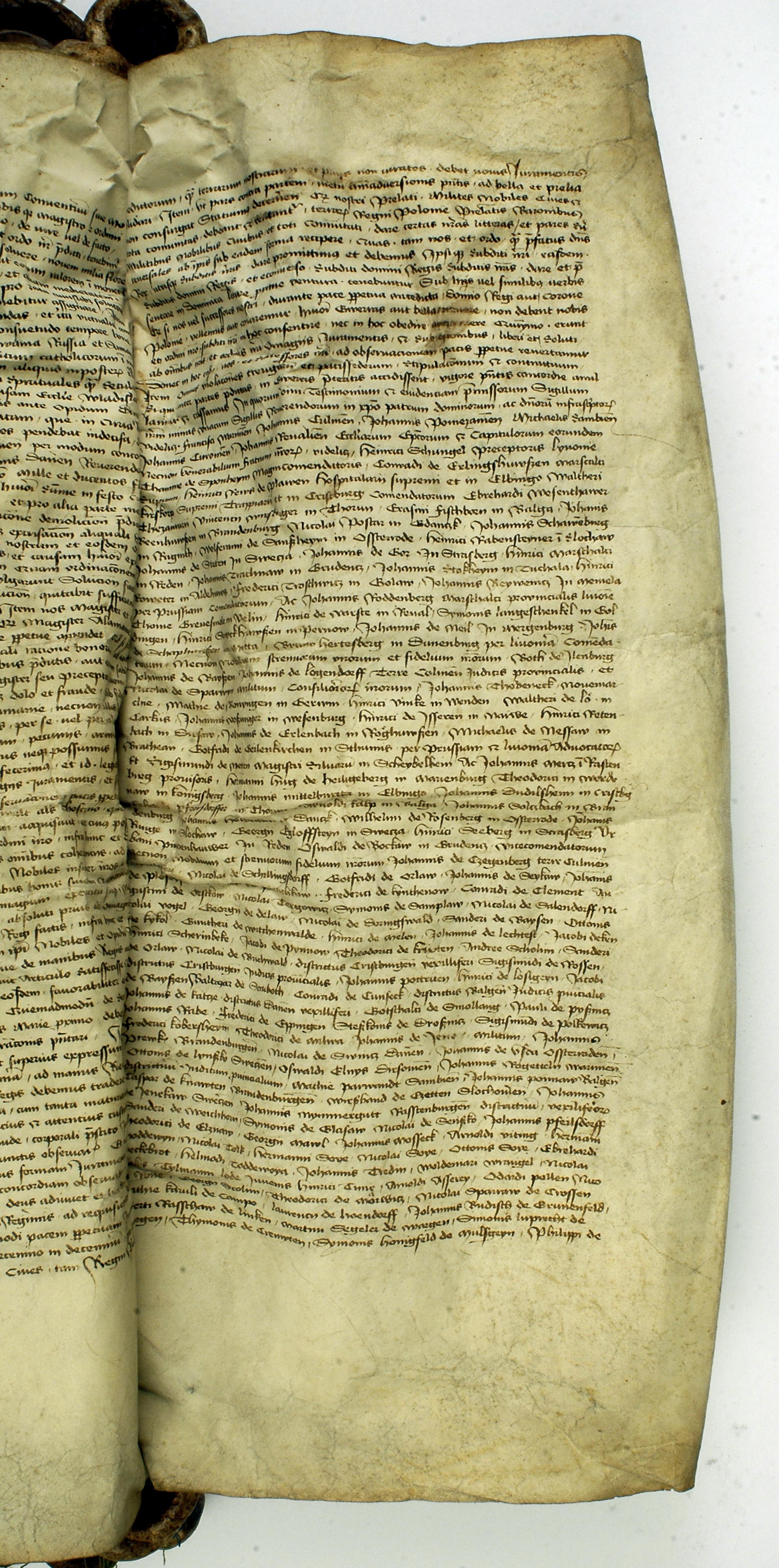 Paul von Rusdorf, Grand Master of the Teutonic Order, makes peace with Władysław Warneńczykiem, the Polish king, Sigismund Kiejstutowiczem, Grand Duke of Lithuania and others. When the document przywioszone? 163 seals.